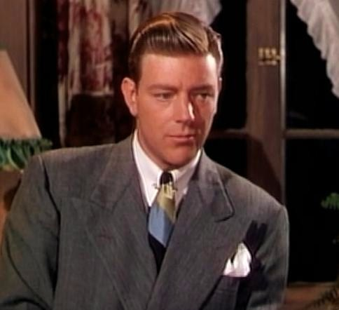 Paul Langton in Till the Clouds Roll By - cropped screenshot